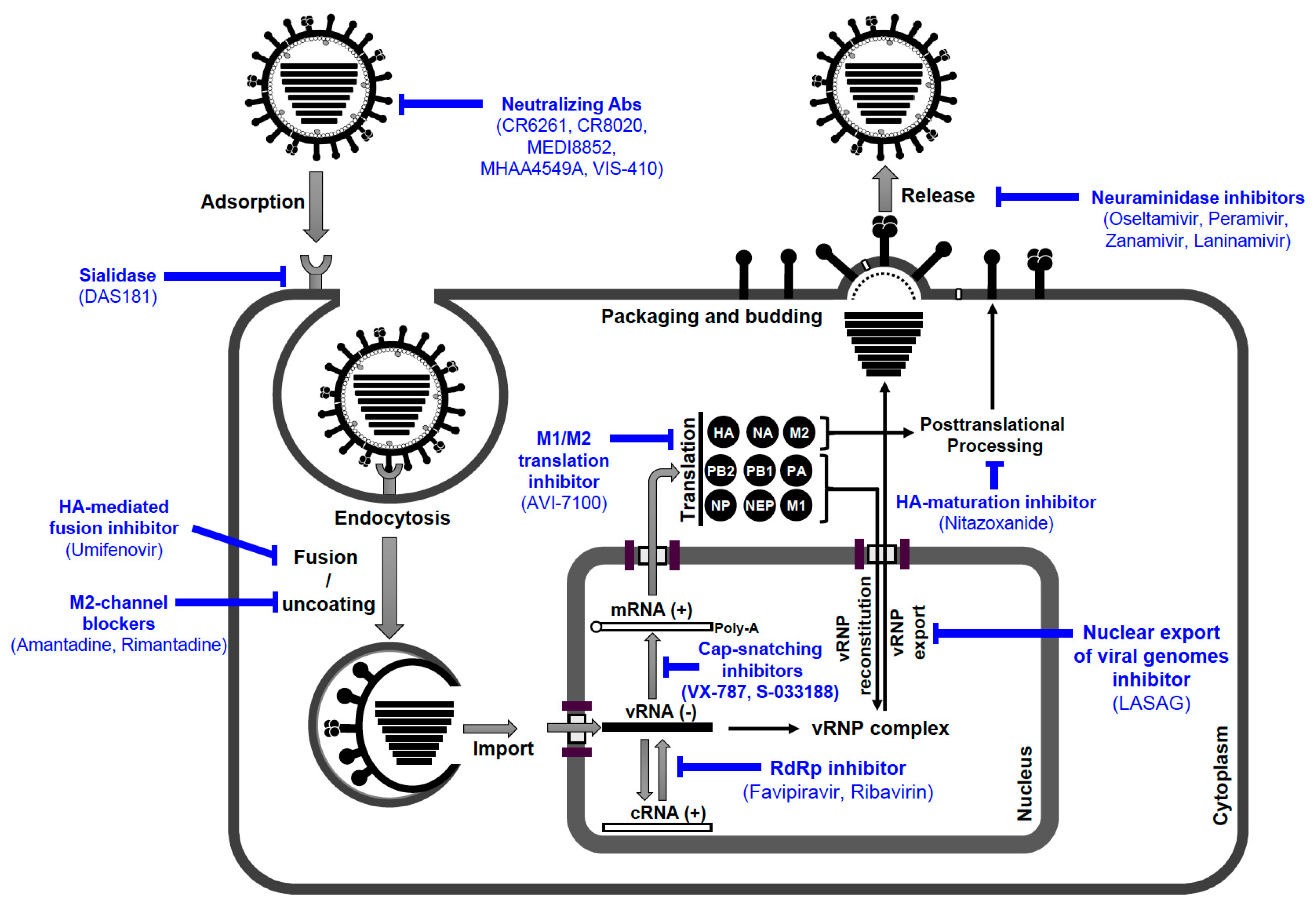 The targets of anti-influenza agents that are currently licensed or under clinically investigation. Before attachment of the influenza virus particle (IVP) to the host cell, specific neutralizing monoclonal antibodies (mAbs) against conserved domains in HA can prevent viral infection. Enzymatic destruction of the receptor determinant can further prevent IVP-binding to the target cells. After binding of the IVP to host cell sialic-acid receptors the viral life-cycle is continued by receptor-mediated endocytosis, HA-mediated fusion of the viral membrane with vesicular membrane, vRNP uncoating and release into the cytosol. The viral genome is then replicated/transcribed in the nucleus. After the viral mRNA has been translated into proteins some undergo post-translational processing in the cytosol or support genome replication in the nucleus. Newly formed vRNPs are exported from the nucleus and finally progeny virions are assembled and released by budding from the infected cell to infect new cells. These different processes are potential targets for the currently licensed antiviral drugs and others, which are in clinical trials including CR6261, CR8020, MEDI8852, MHAA4549A, VIS-410 (neutralizing Abs); DAS181 (sialidase); Umifenovir (fusion inhibitor); adamantanes (M2 channel blockers); Favipiravir and Ribavirin (RdRp inhibitors); VX-787 (PB2 cap-binding inhibitor); S-033188 (PA endonuclease inhibitor); AVI-7100 (inhibits M1/M2 mRNA-splicing); Nitazoxanide (HA maturation inhibitor); and Oseltamivir, Peramivir, Zanamivir, and Laninamivir (Neuraminidase inhibitors). In addition to its NF-κB inhibition effect, LASAG antagonizes the nuclear export of viral genomes and thereby blocks the assembly and release of mature influenza virus.